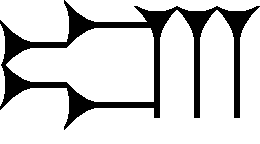 Cuneiform sign. Sign no: 134, mostly for um. In the Epic of Gilgamesh, for dup, tup, țup, (the d/t vowels with "xup"), um-(98 uses), and Sumerogram DUB-(forțuppu), 1 usage out of 5 for spellings of țuppu. In the 1350-1330 BC Amarna letters used especially for um in the Introduction to the letters for "umma" (approximately: "message (thus)"...(from an individual letter writer, the author of the letter to the Pharaoh of Egypt); confer with verb "amû", (for "umma"), amu meaning: "to speak", "to ponder").